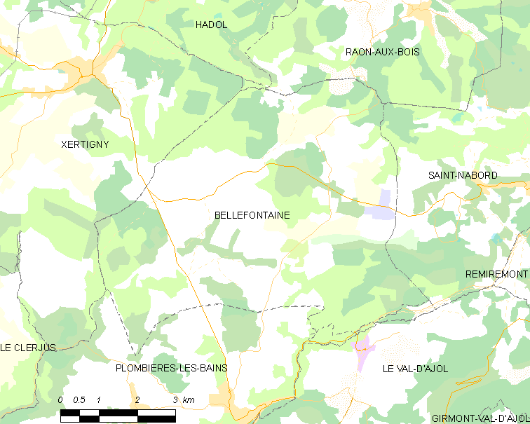 Map of French municipality Bellefontaine